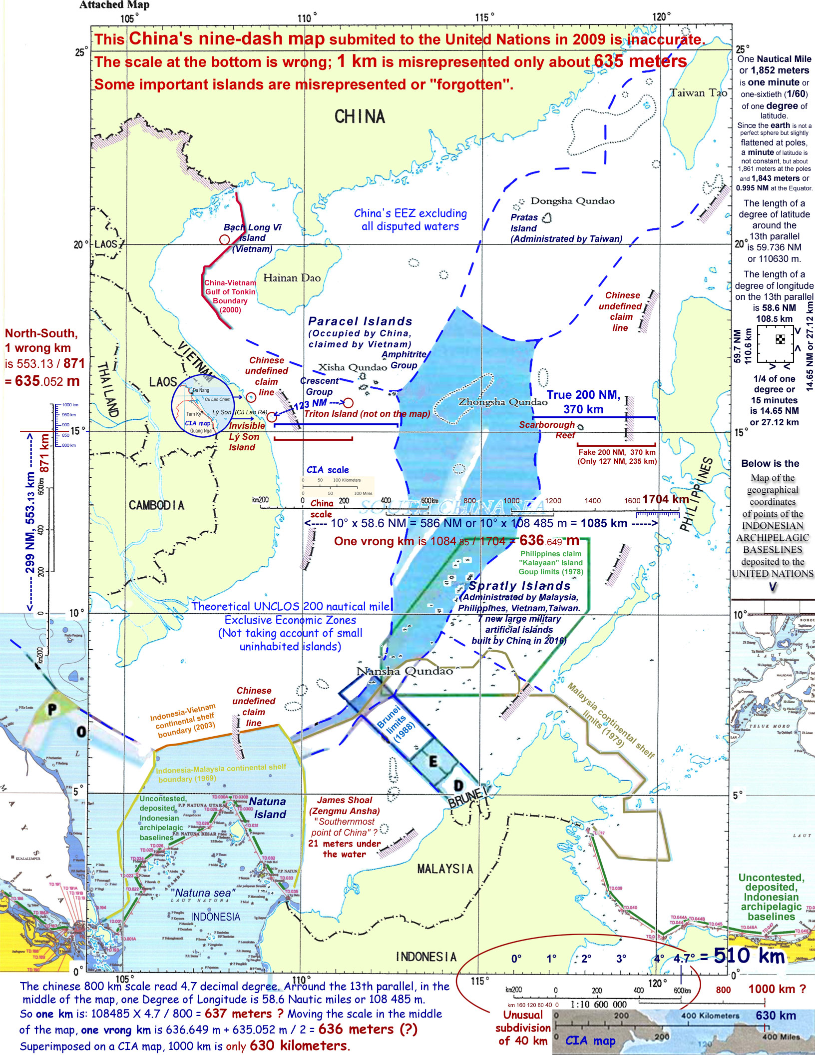 Personal work on 2 United Nations maps and 2 CIA maps showing that the scale of the map submitted by China to the UN in 2009 is wrong.